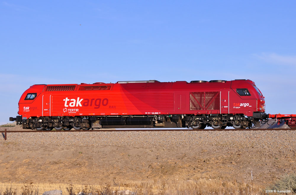 the locomotive 6001 of Takargo Rail on his journey from Lisboa (Alverca) to Madrid (Abroñigal).